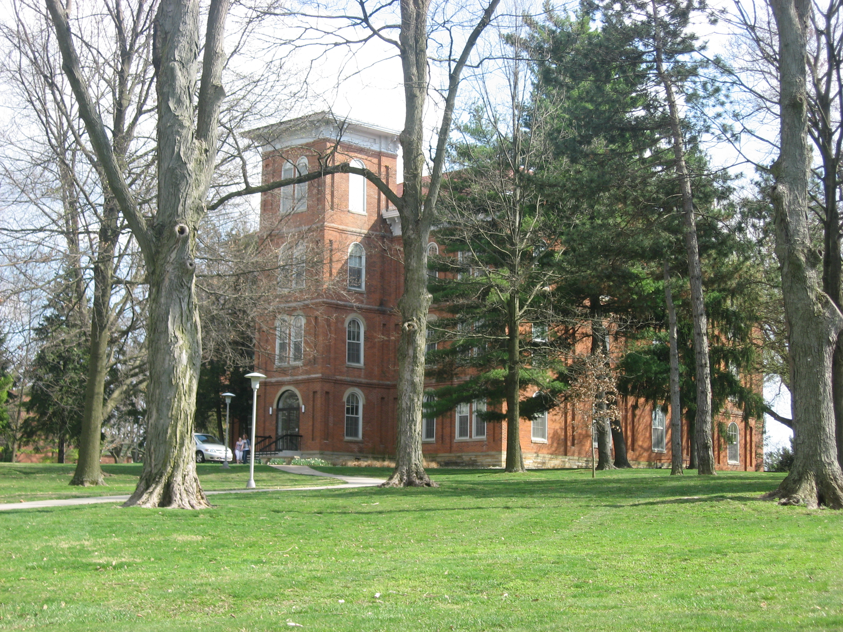 Grounds of Wilmington College, including College Hall. Photo is taken just southeast of the intersection of College Street with Fife and Rombach Avenues (U.S. Route 22/State Route 3) in Wilmington, Ohio, United States. Built in 1866 and the oldest building on the campus, College Hall is listed on the National Register of Historic Places.